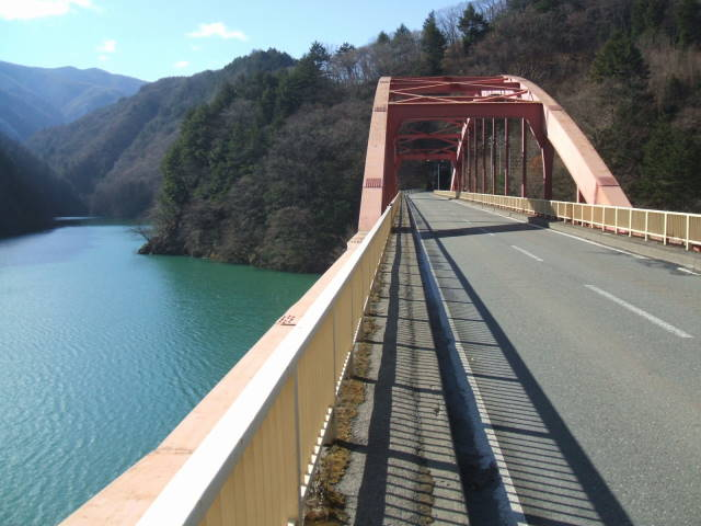 Maekawado Bridge (Maekawado Ohashi) over Lake Azusa in Azumi, Matsumoto City, Nagano Prefecture, Japan